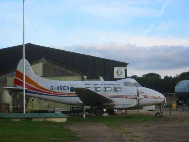 De Havilland aircraft museum Hertfordshire. The wooden framed Mosquito was built at this factory so the museum has a heritage status.